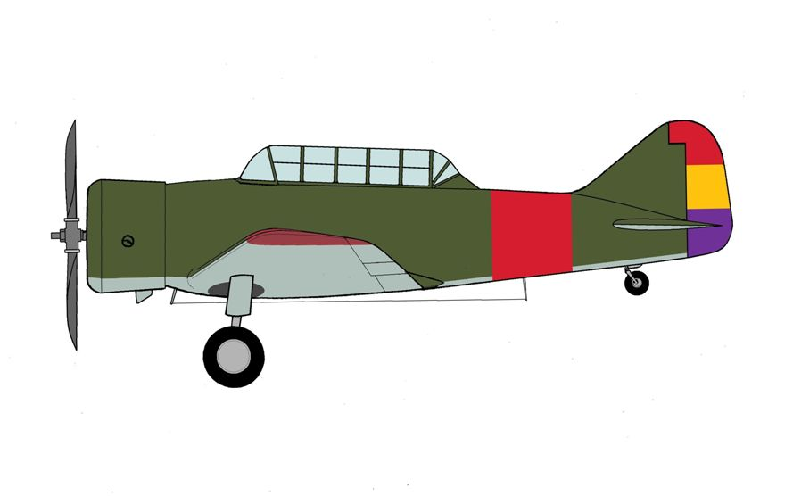 Spartan 8W Zeus with Spanish Republican Air Force markings. This was one of the Mexican aircraft purchased by the Spanish Republican military in 1938. The freighter carrying these planes was sunk and they were lost.